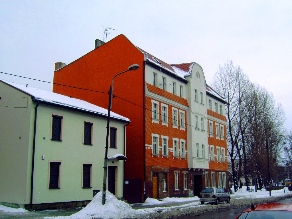 Hallera Street in Katowice